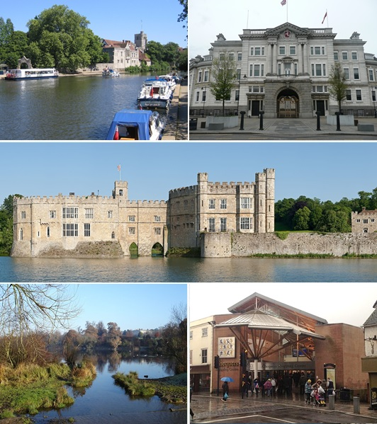 Montage of Maidstone using images from Commons and Flickr. Images are of the River Medway and All Saints Church, the Town Hall, Leeds Castle, Moat Park and The Mall Maidstone.